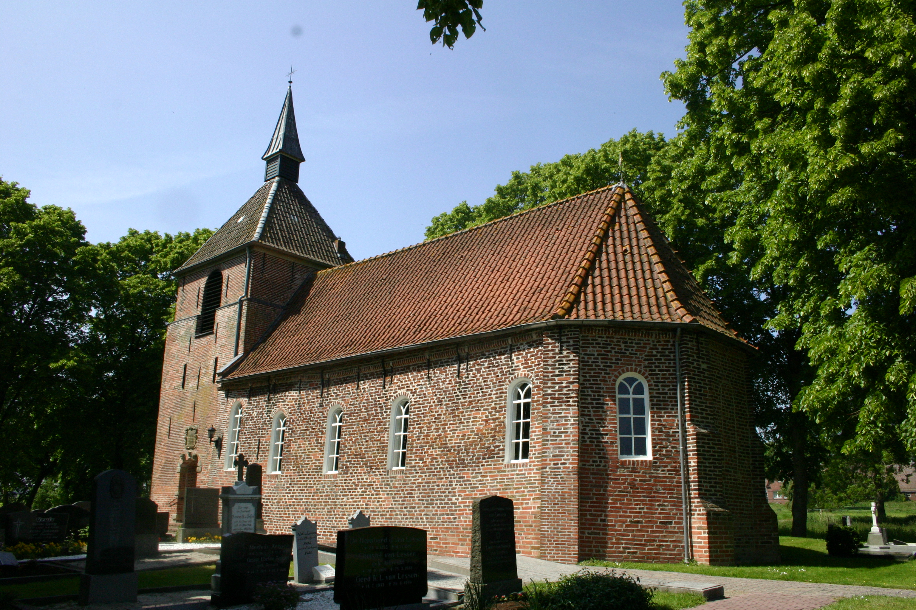 The Evangelical Reformed Böhmerwold Church in Böhmerwold (a locality of Jemgum), district of Leer, East Frisia, Lower Saxony, Germany, is owned and used by a Reformed congregation within the Evangelical Reformed Church – Synod of Reformed Churches in Bavaria and Northwestern Germany.